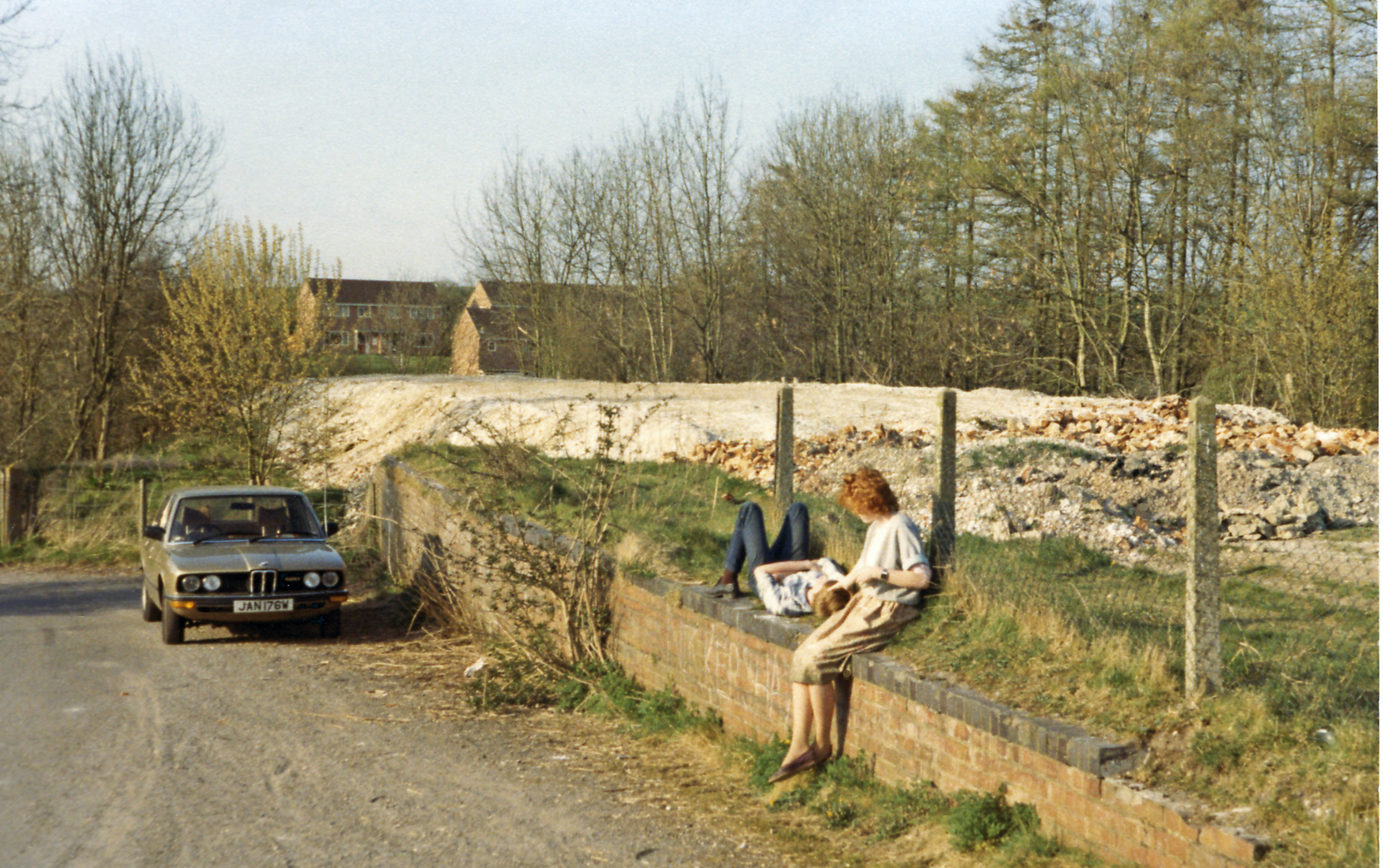 Remains of Collingbourne station, M&SWJR, 1984. View northward on the former Midland & South Western Junction Railway (latterly GWR), towards Savernake, Marlborough, Swindon and Cheltenham. This line, which closed entirely (except its southern end, Ludgershall - Andover Junction) from 11/9/61. All that remains is a wall/platform - with my teenage offspring lolling on it. In the two World Wars there were many large Camps and Depots in this Salisbury Plain area and some still remain, partly explaining why the line, which was vital in wartime, is still open as far as Ludgershall.